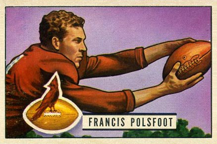 American football player Fran Polsfoot on a 1951 Bowman card.